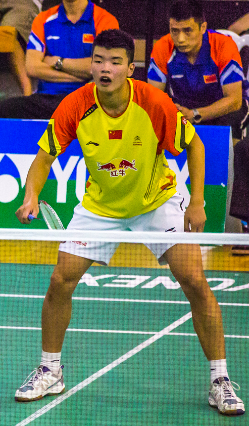 2013 US Open Badminton Championships at Orange County (Los Angeles) - Wang Yilu (China)